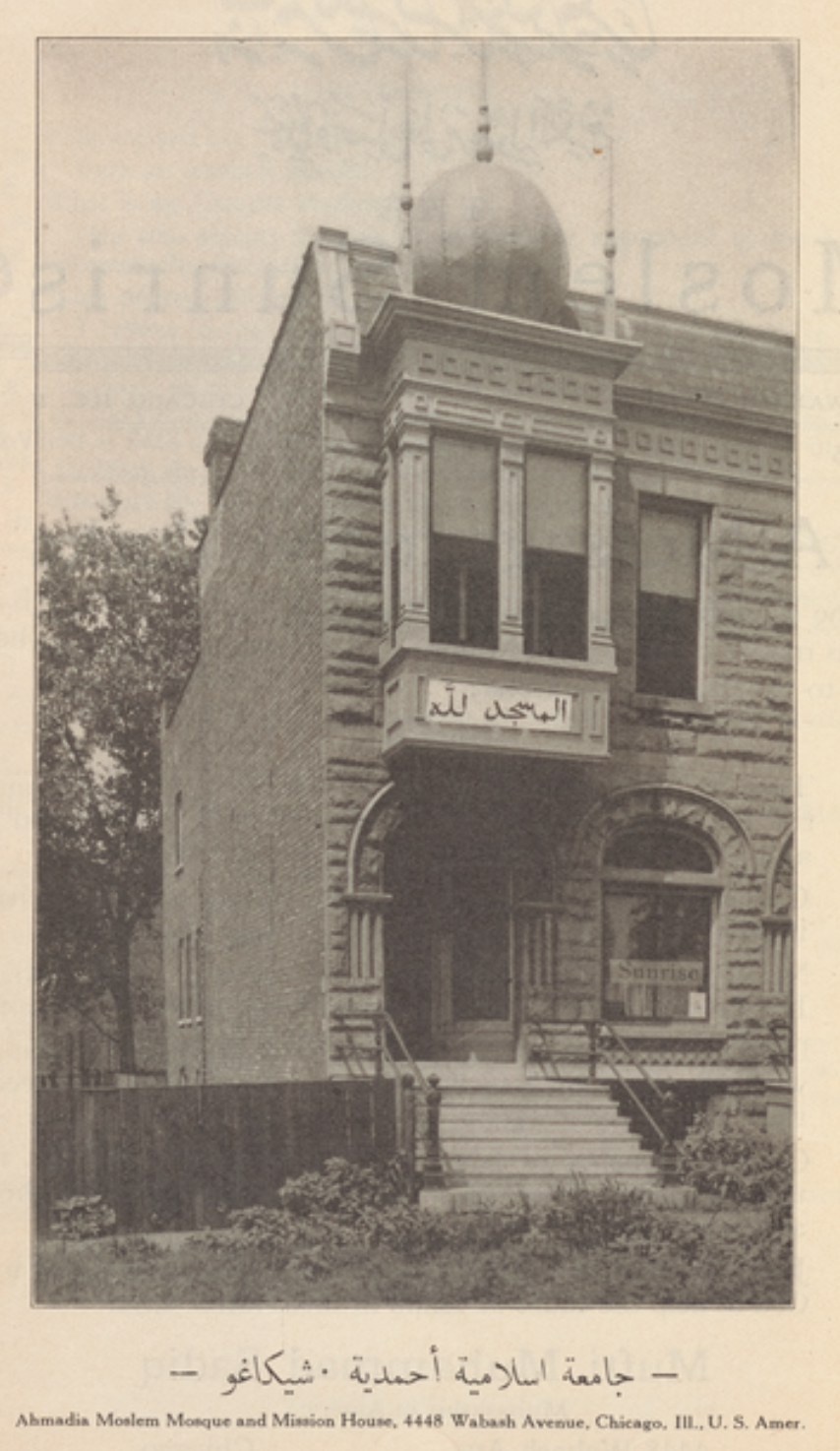 This building is the first one owned by this Moslem sect in the United States. This image was published on page 126 of the May, 1923 edition of The Moslem Sunrise (Volume 1 No. 6)